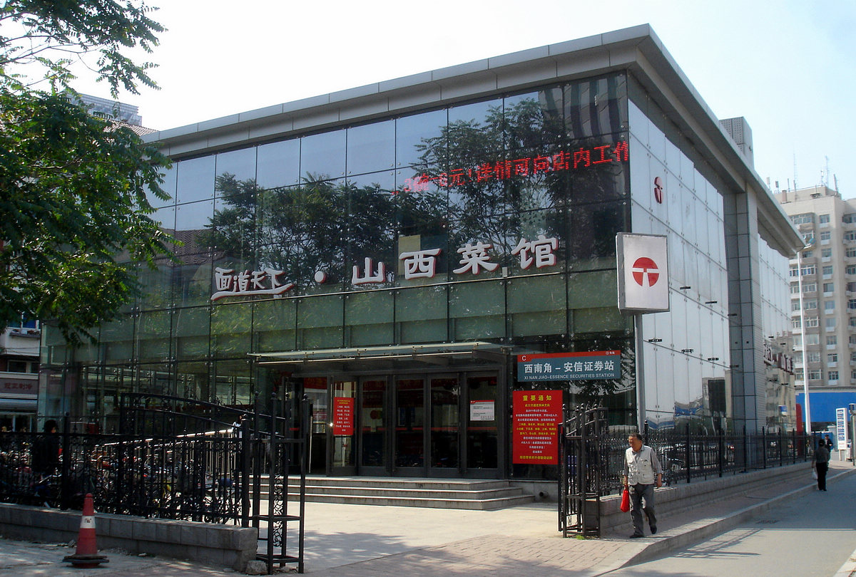 Xinanjiao St (Line 1)